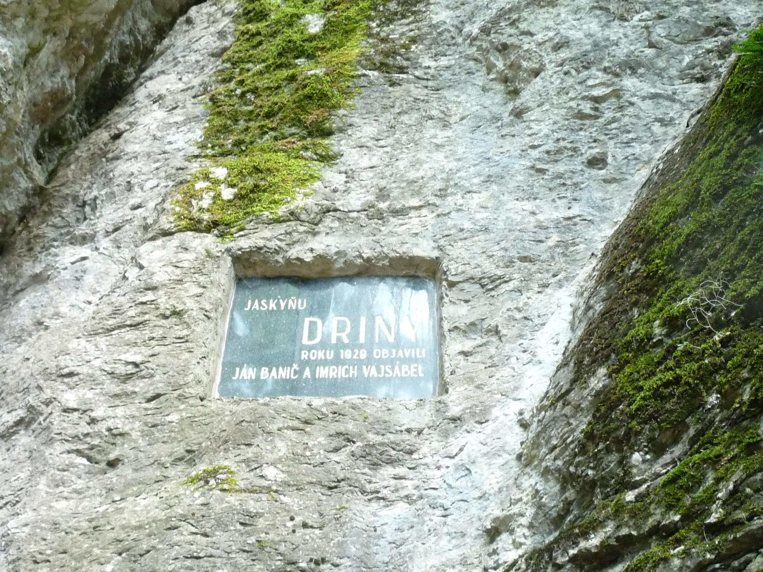 Memor table of discoverer of cave